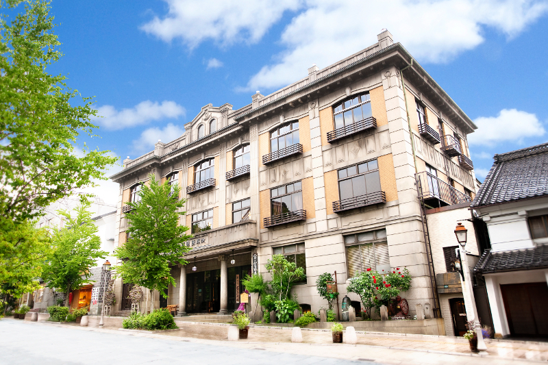 The Fujiya Gohonjin Building in Nagano Japan